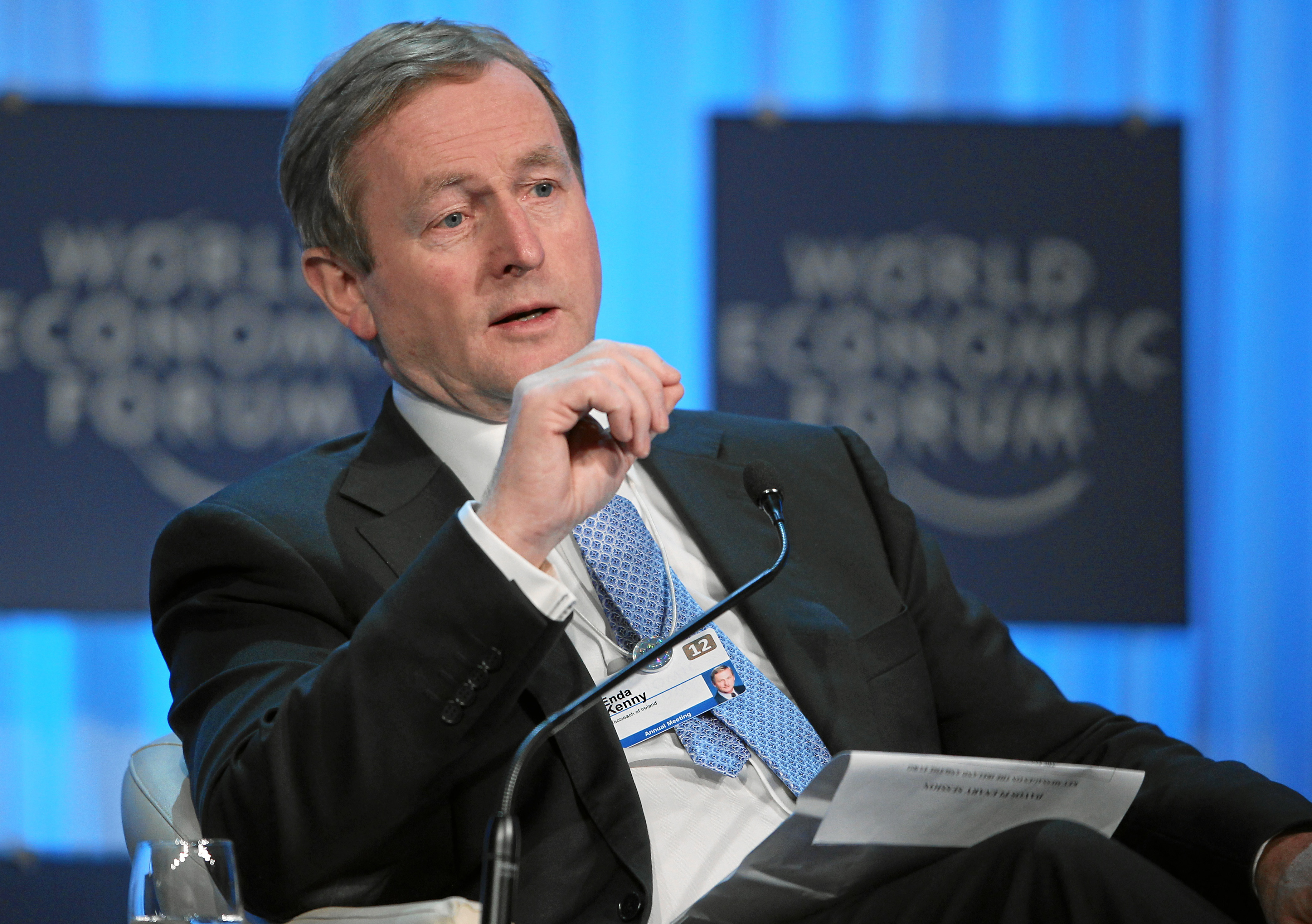 Enda Kenny, Taoiseach of Ireland speaks during the Annual Meeting 2012 of the World Economic Forum at the congress centre in Davos, Switzerland, January 26.